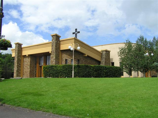 Maghera RC Church Looking north-east